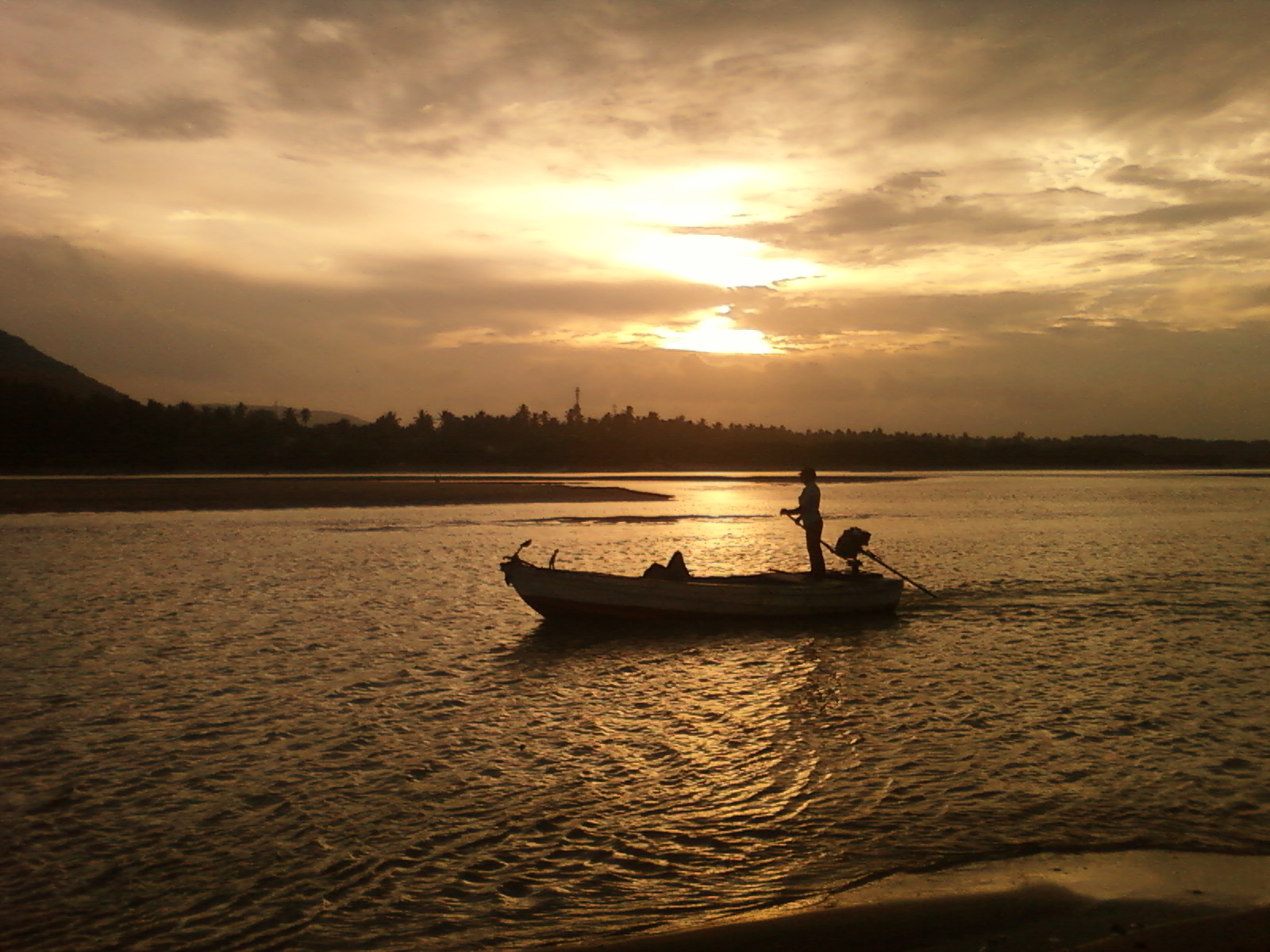 A Boat in River Gosthani at Bheemunipatnam during sunset, Visakhapatnam district, Andhra Pradesh